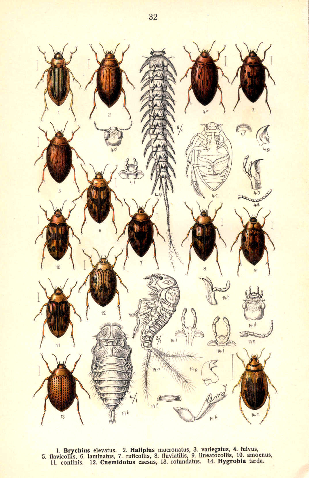 See image for index to numbers. Brychius elevatus Panz. = Brychius elevatus (Panzer, 1794), adult, dorsal view Haliplus mucronatus Steph. = Haliplus mucronatus Stephens, 1828, adult, dorsal view [Haliplus] variegatus Strm. = Haliplus variegatus Sturm, 1834, adult, dorsal view [Haliplus] fulvus F. = Haliplus fulvus (Fabricius, 1801) (4a: larva, dorsal view, 4b: adult, dorsal view, 4c: adult, ventral view with left legs removed, 4d: head of adult, dorsal view, 4e: antenna of adult, 4f: labrum of adult, 4g: mandible of adult, 4h: maxilla of adult, 4i: labium of adult) [Haliplus] flavicollis Strm. = Haliplus flavicollis Sturm, 1834, adult, dorsal view [Haliplus] laminatus Schall. = Haliplus laminatus (Schaller, 1783), adult, dorsal view [Haliplus] ruficollis Degeer. = Haliplus ruficollis (De Geer, 1774), adult, dorsal view [Haliplus] fluviatilis Aubé. = Haliplus fluviatilis Aubé, 1836, adult, dorsal view [Haliplus] lineatocollis Mrsh. = Haliplus lineatocollis (Marsham, 1802), adult, dorsal view [Haliplus] amoenus Oliv. = Haliplus obliquus (Fabricius, 1787), adult, dorsal view [Haliplus] confinis Steph. = Haliplus confinis Stephens, 1828, adult, dorsal view Cnemidotus caesus Dft. = Peltodytes caesus (Duftschmid, 1805) , adult, dorsal view [Cnemidotus] rotundatus Aubé. = Peltodytes rotundatus (Aubé, 1836), adult, dorsal view Hygrobia tarda Hrbst. = Hygrobia hermanni (Fabricius, 1775) (14a: larva, lateral view, 14b: pupa, dorsal[verification needed] view, 14c: adult, dorsal view, 14d: head of adult, dorsal view, 14e: antenna of adult, 14f: labrum of adult, 14g: mandible of adult, 14h: maxilla of adult, 14i: labium of adult, ventral (left[verification needed]) and dorsal view, 14k: foreleg of adult male)